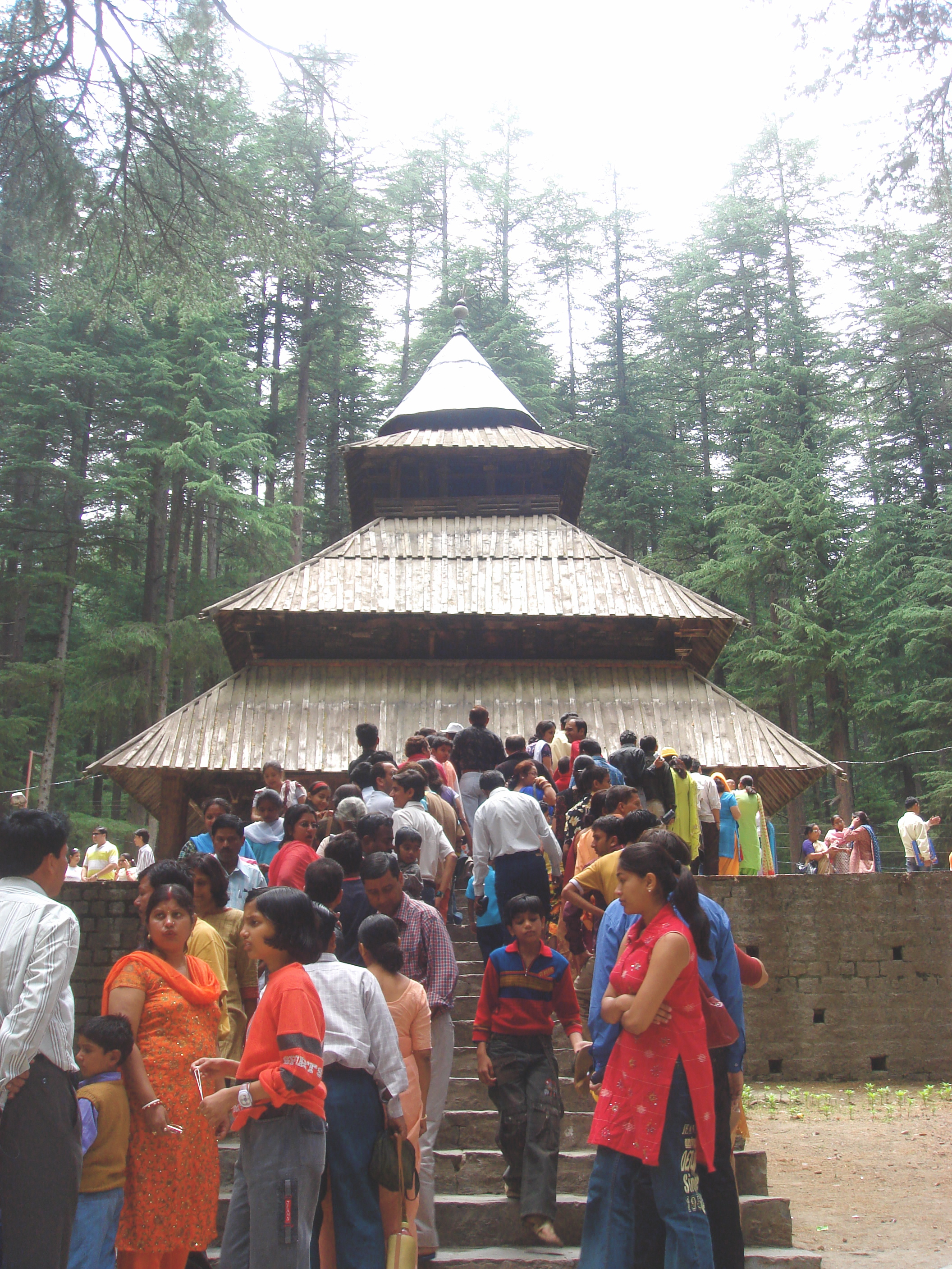 Hidimba Devi Temple at Manali, Himachal Pradesh, India. This temple is dedicated to the Rakshashi Hidimbi of Mahabharata. Trees in background are Cedrus deodara